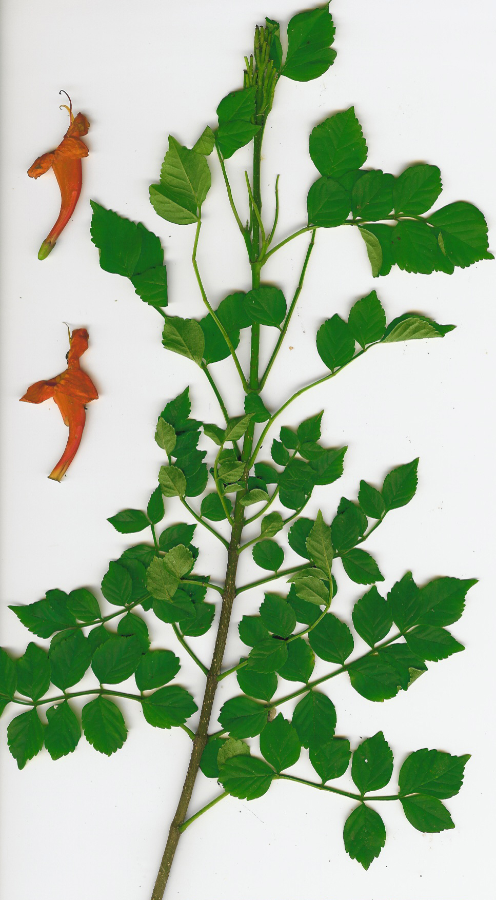 Tecoma capensis (branch). Location: Lanai, Queens St